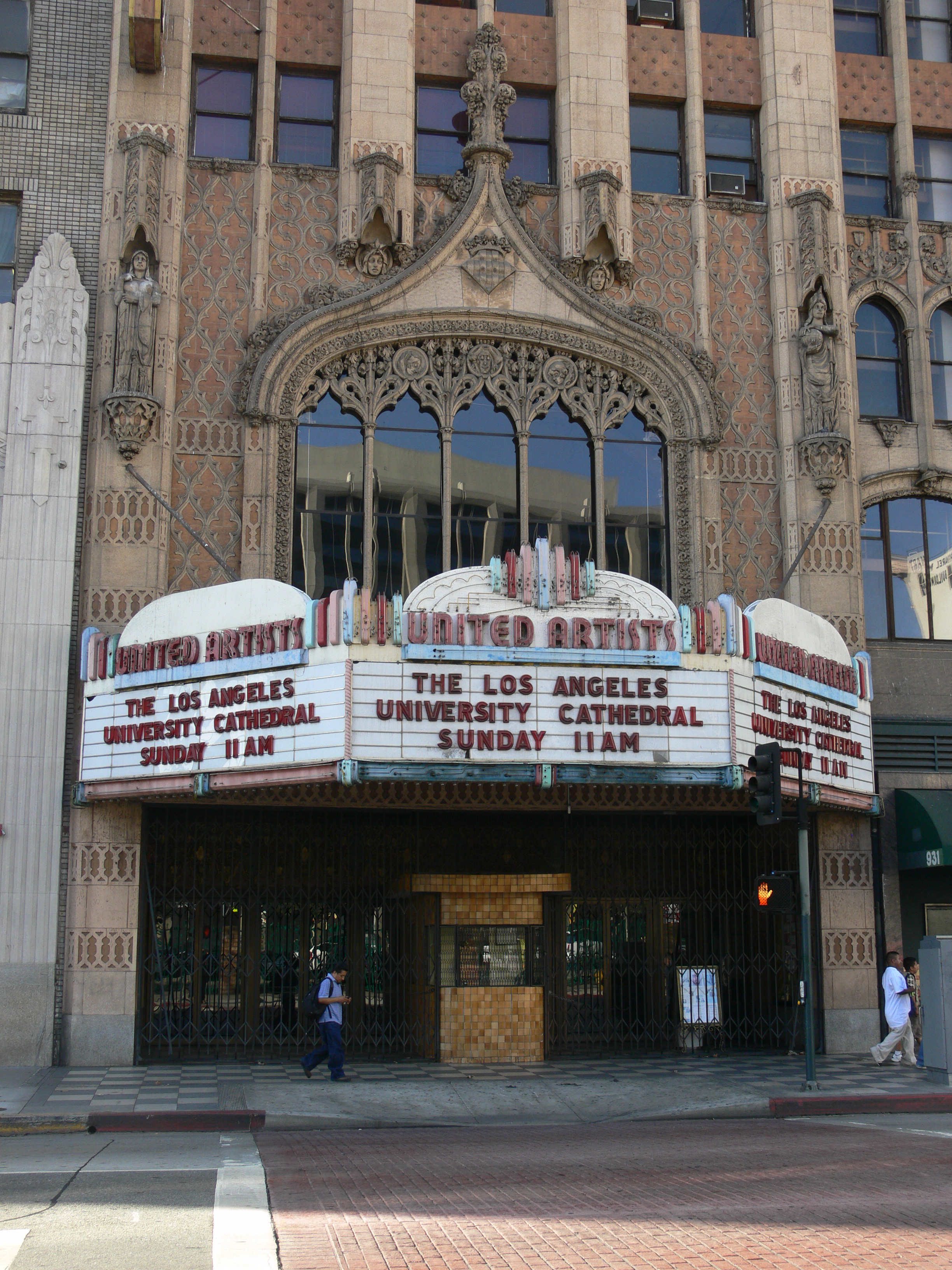 United Artists Theatre, Broadway, downtown Los Angeles (now "Los Angeles University Chapel")